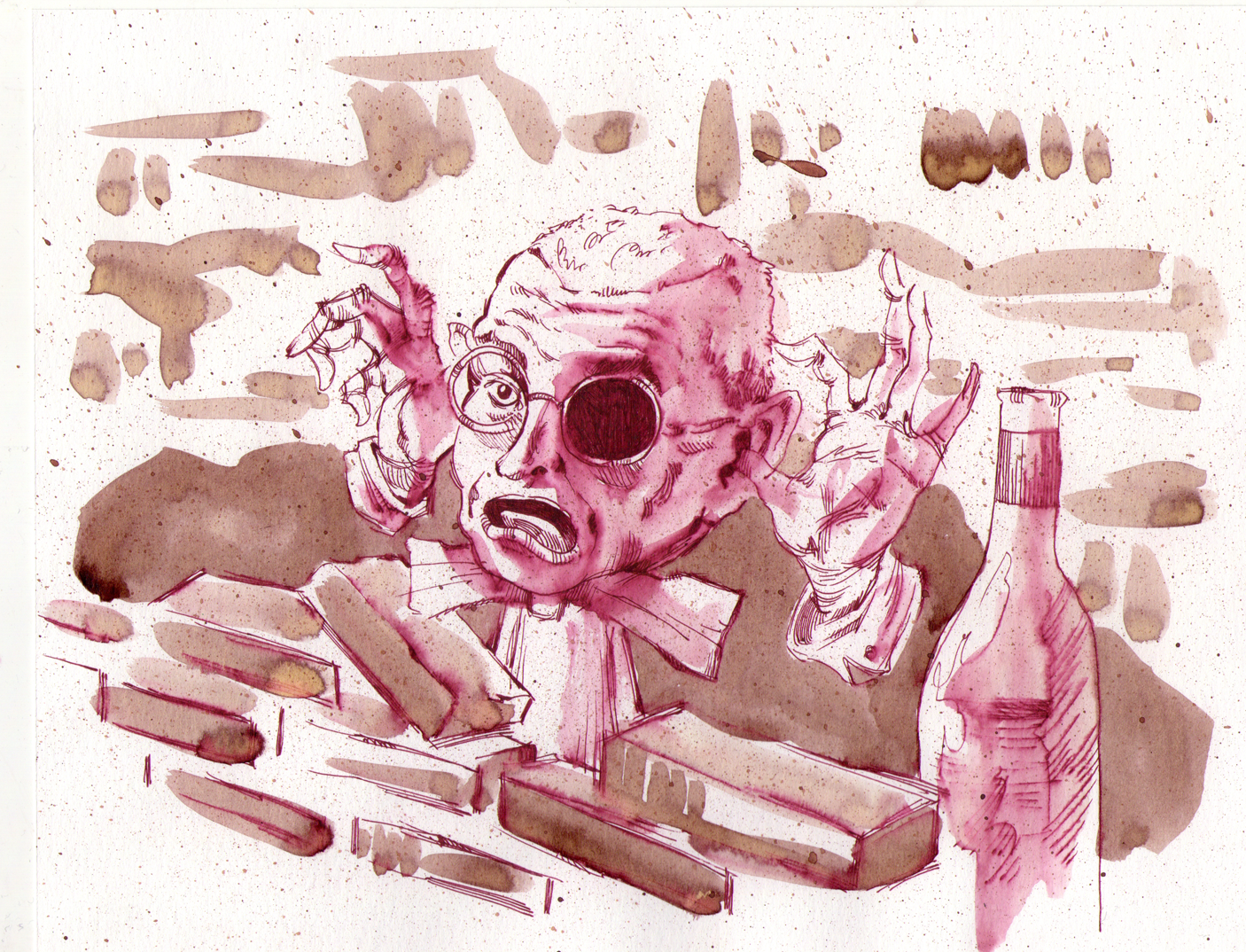 Illustrated recreation of an artistic action by George Maciunas (who was founder of Fluxus network).